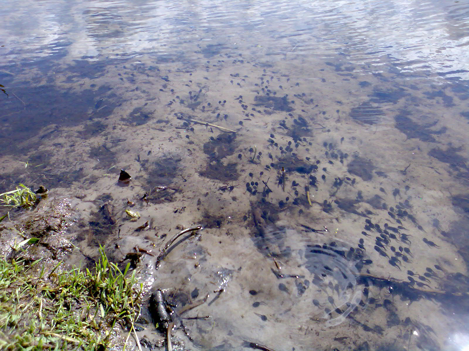 Tadpoles of Bufo bufo.